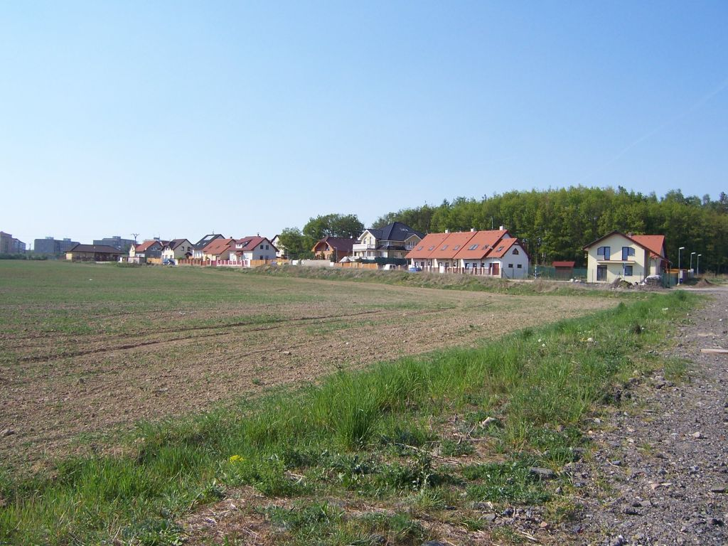 Květnice III, Na Ladech